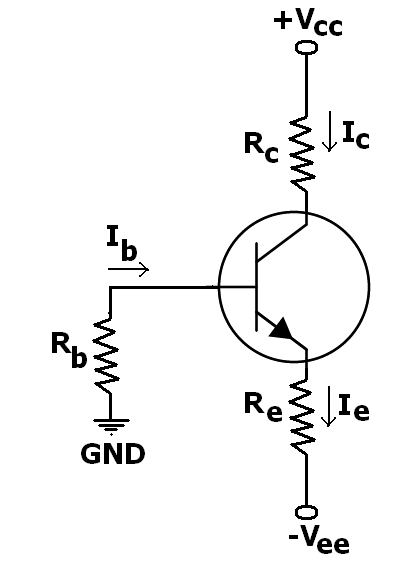 Emitter bias circuit.